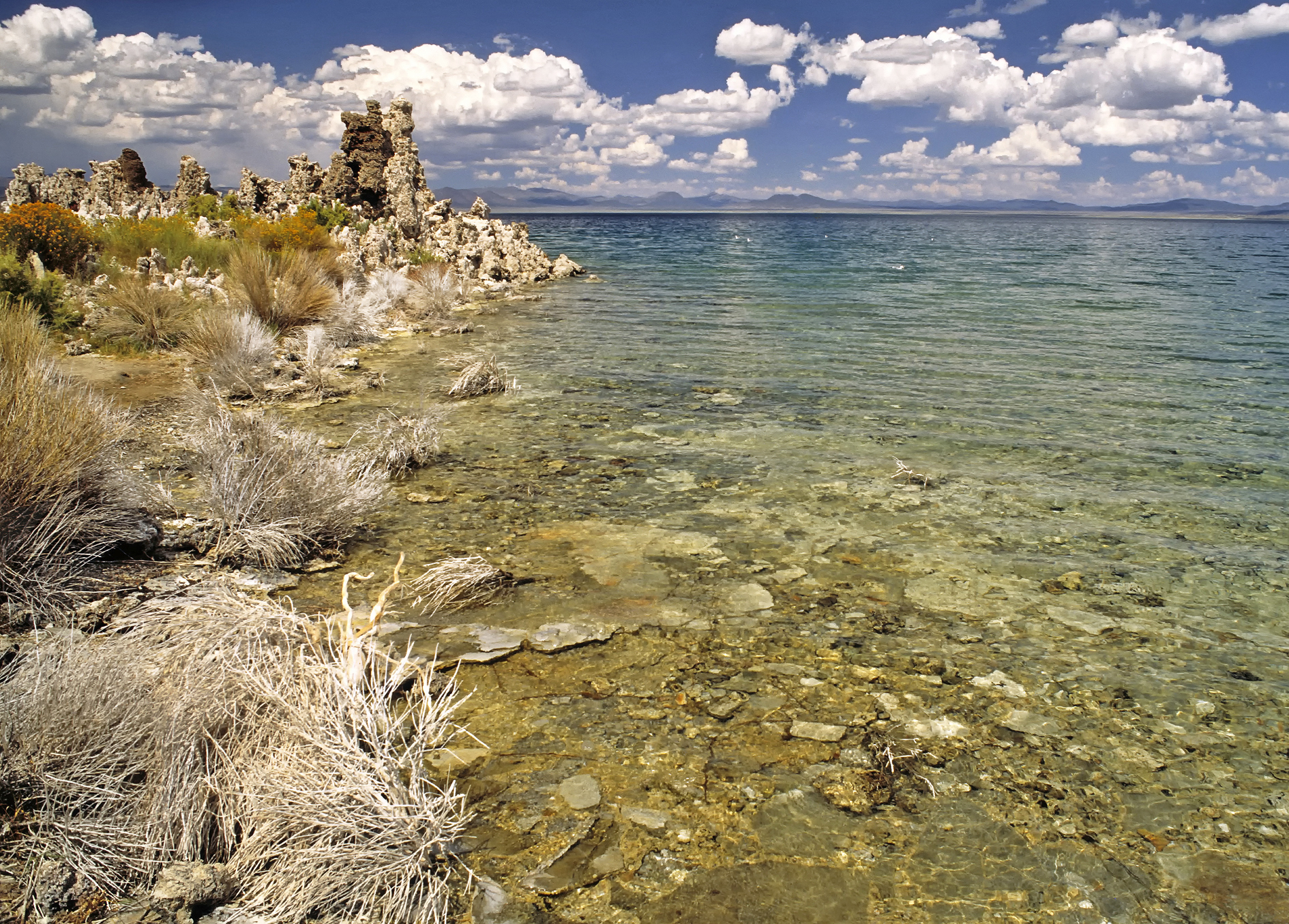 Shore of Mono Lake with Tufa columns, in the Mono Lake Tufa State Reserve, Eastern Sierra, California, United States.